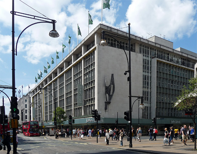 A dense grid of windows and spandrels framed within a more spacious grid with full-height stone mullions. By Reginald Uren of Slater & Uren, 1958-60. Near the corner is "Winged Figure", a sculpture by Barbara Hepworth.